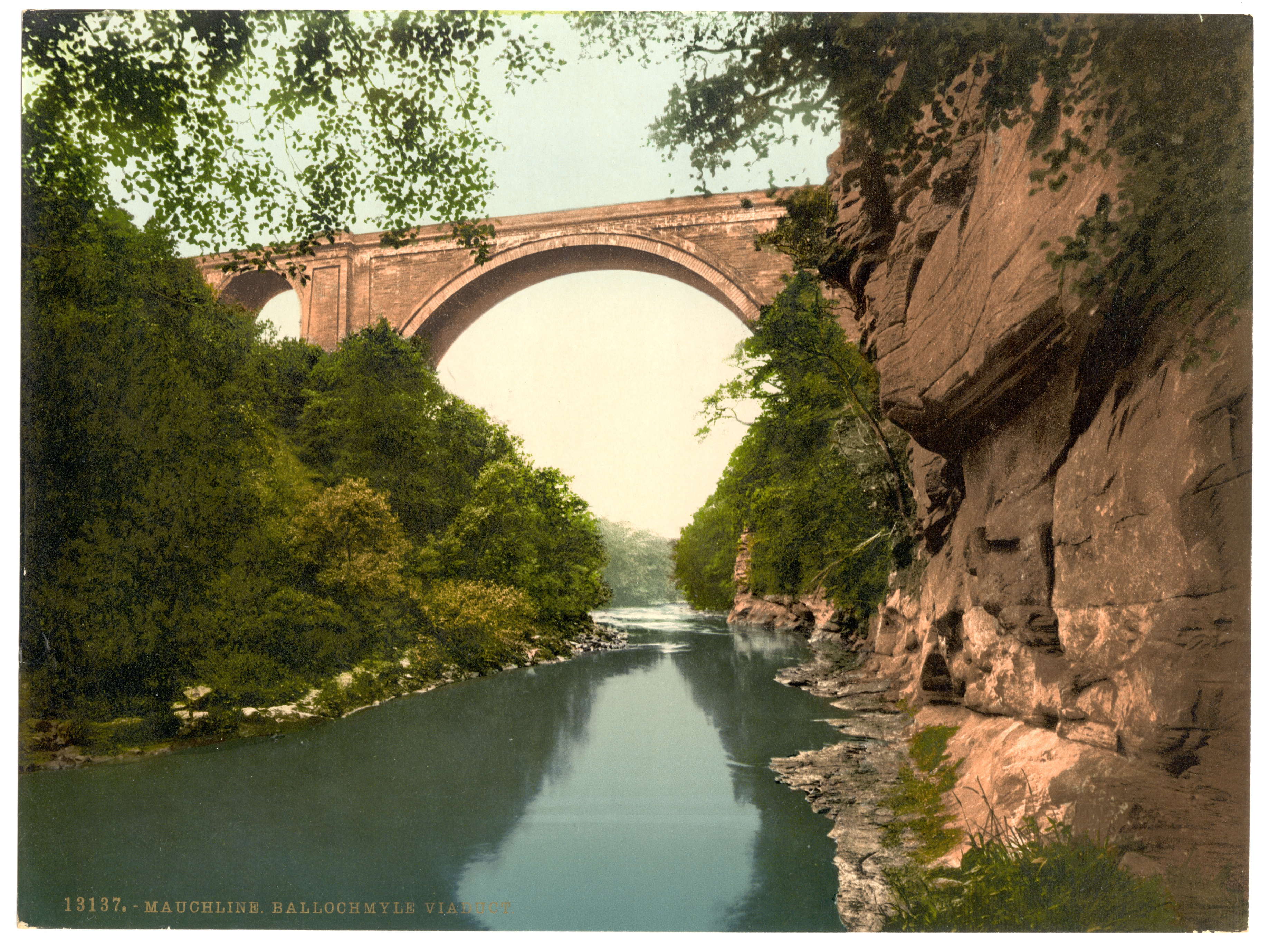 Title from the Detroit Publishing Co., catalogue J-foreign section. Detroit, Mich. : Detroit Photographic Company, 1905.; More information about the Photochrom Print Collection is available at Print no. "13137".; Forms part of: Views of landscape and architecture in Scotland in the Photochrom print collection.